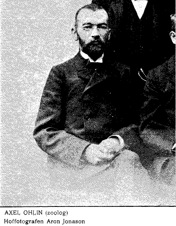 Axel Ohlin, 1867-1903, Swedish zoologist and polar explorer